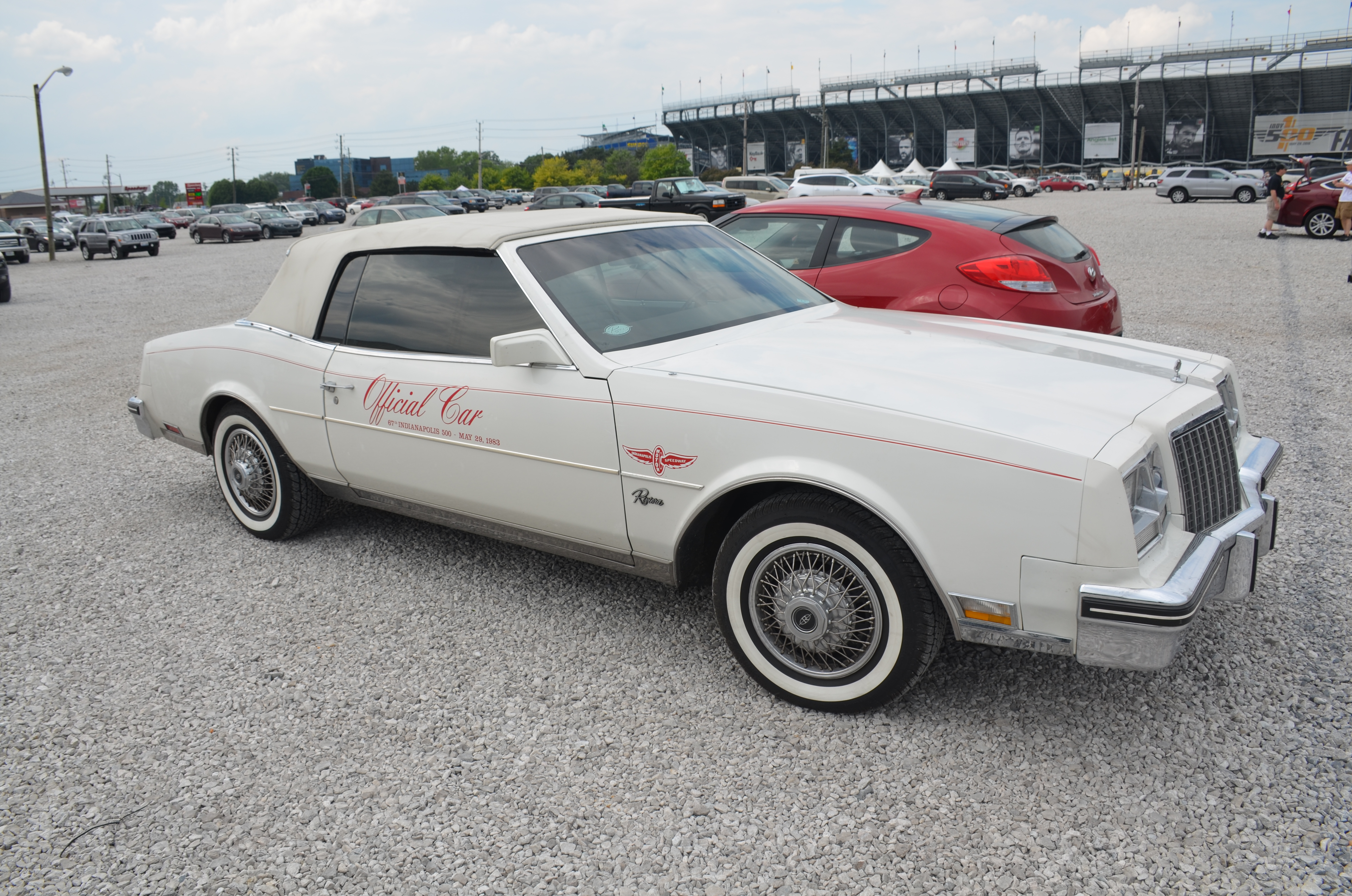 Pace Car replica festival car for the 1983 Indianapolis 500